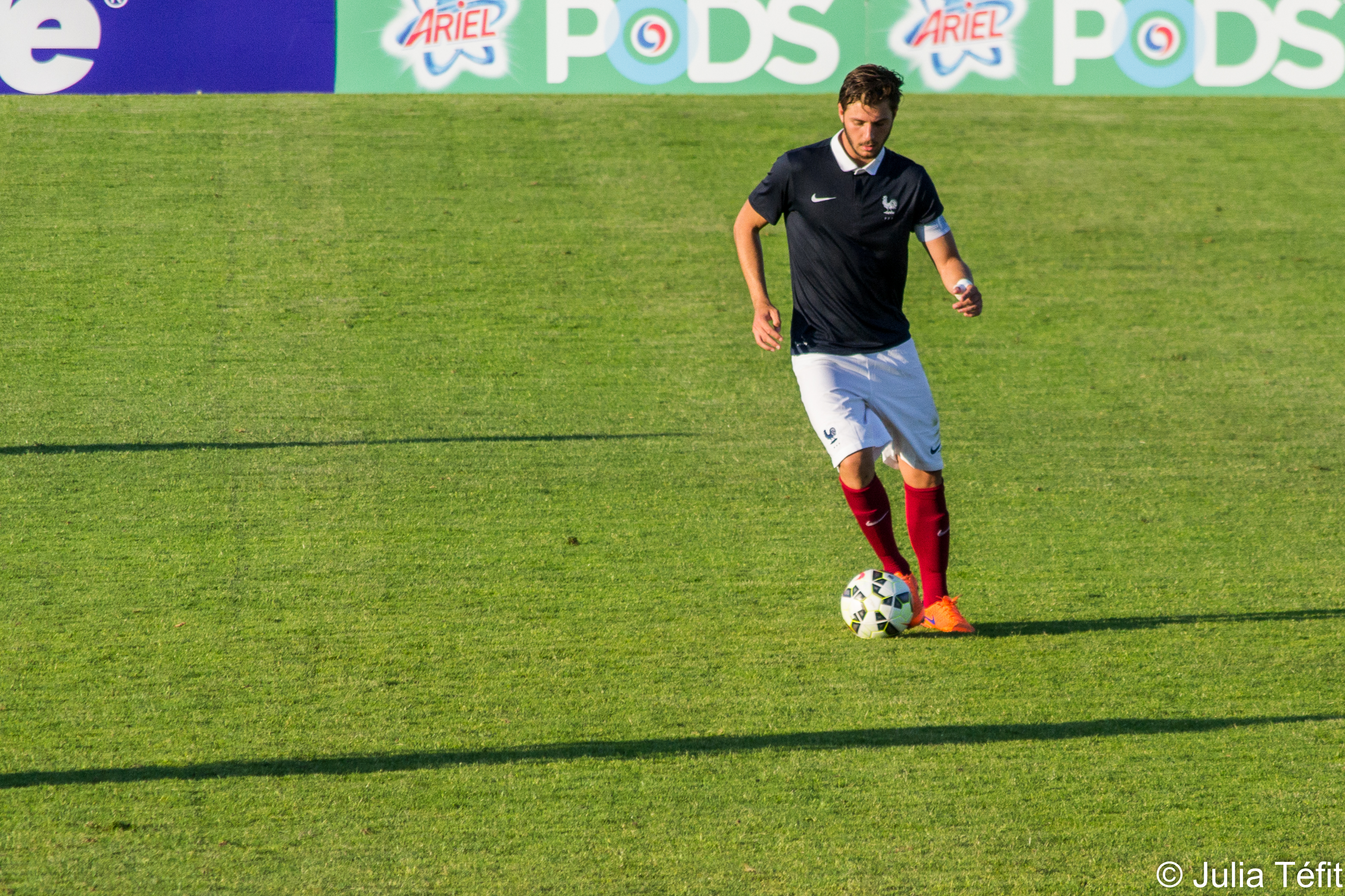 Stéphane Sparagna playing for France U-23 against Costa Rica in 2015 Toulon Tournament